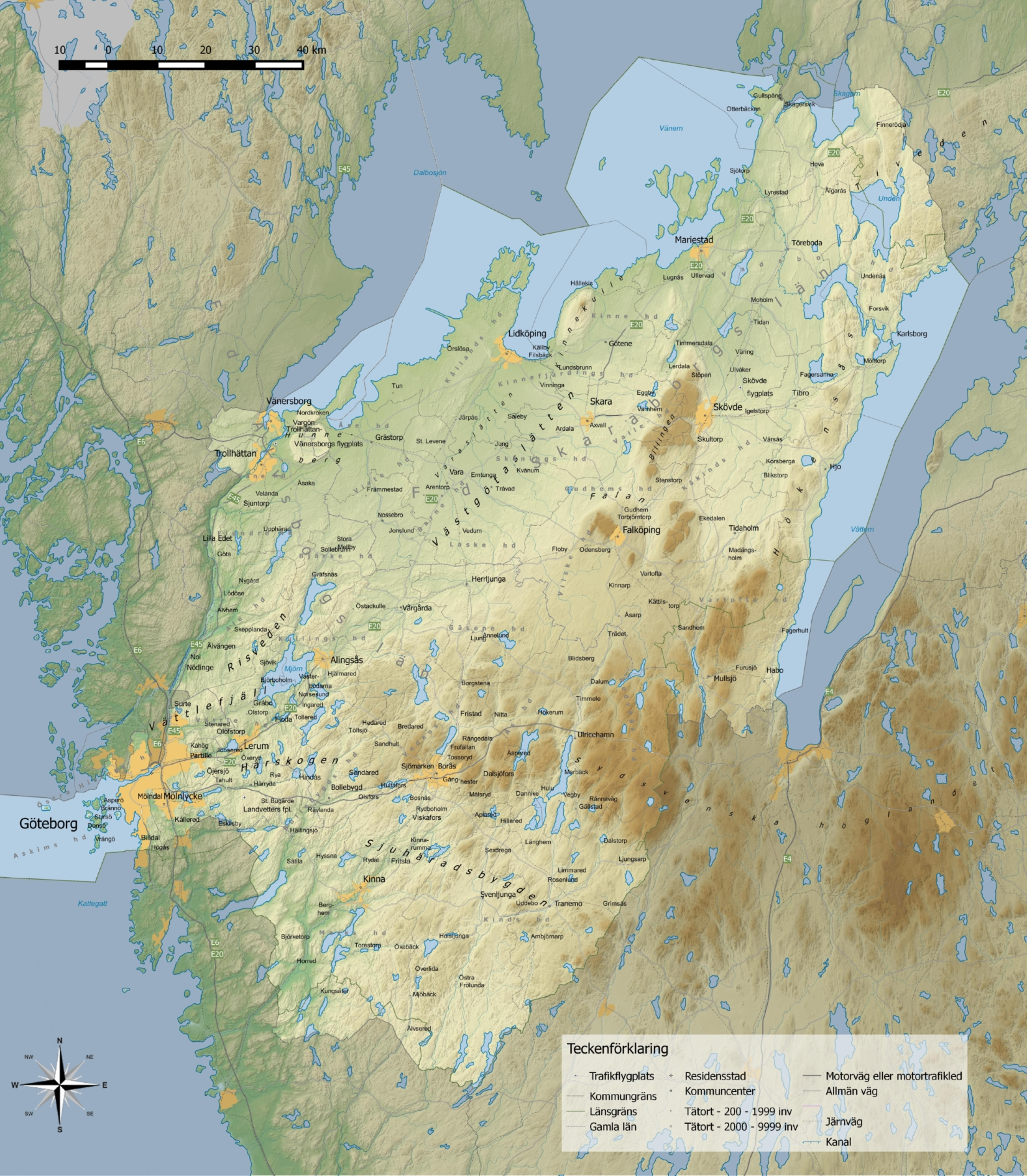 Map of Västergötland in Sweden. Jpg-version of File:Västergötland.svg